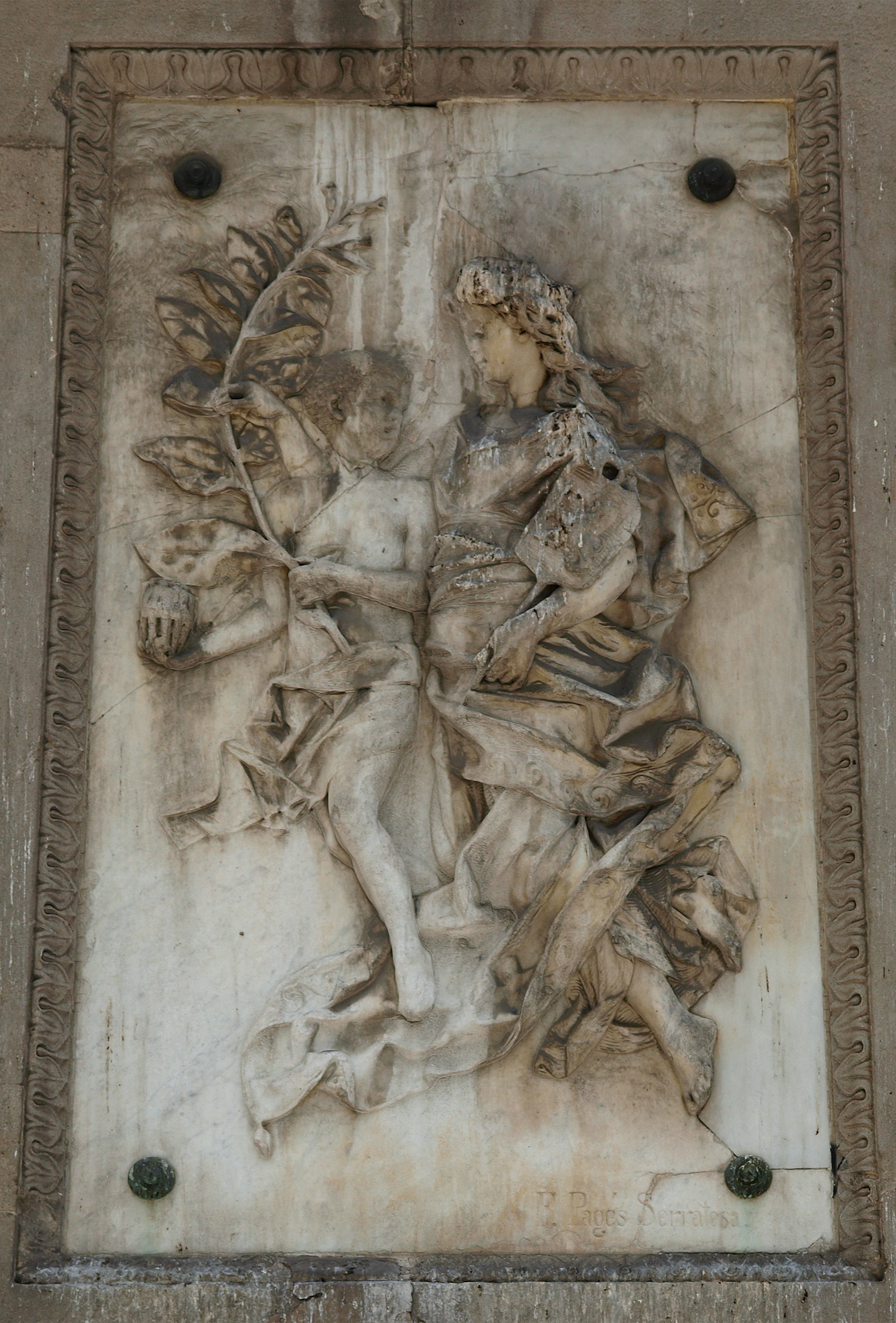 Relief representing the Compañía General de Tabacos de Filipinas in A Lopez Lopez, also known as El Negro Domingo, a sculpture created in 1884 by several prominent artists as Rossend Nobas, Joan Roig i Solé, Francesc Pagès i Serratosa, and Lluís Puiggener Venanci Vallmitjana i Barbany. It's located in Barcelona, Spain - Relief created by Francesc Pagès i Serratosa.